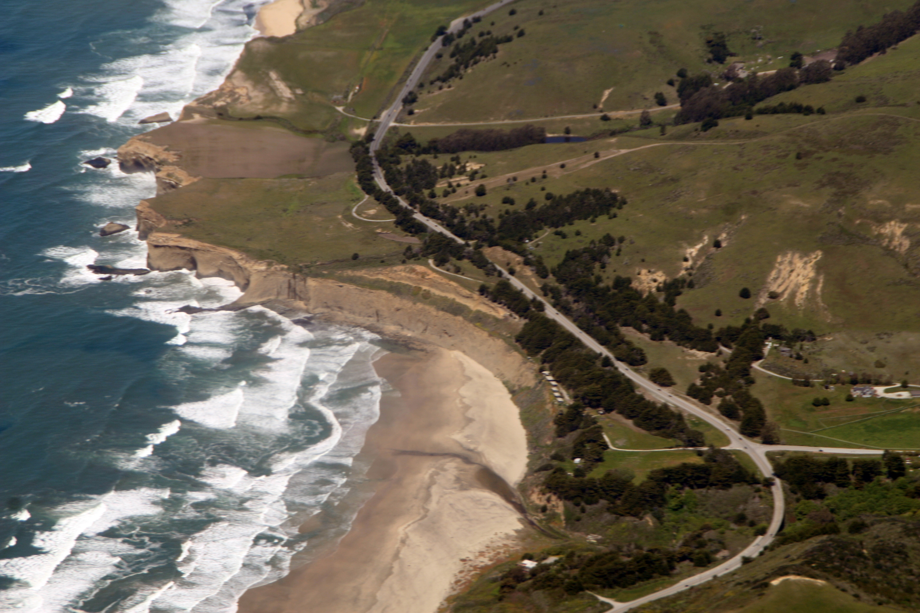 Tunitas Beach and Tunitas Creek. The cliffs here are 100' high. This is also where the farmer Alexander Gordon had a famous (or infamous) "chute" for sliding farm goods from the top of the cliffs to ships anchored in the rolling surf below. Gordon's Chute was built in 1872 and lasted until 1885, when a storm blew it away. Here is a large detailed drawing of the chute. Note also, between the highway and the cliffs, the faint trace of a former railroad bed. This was the Ocean Shore Railroad. The remains of a trestle can be found alongside Tunitas Creek Gulch, on the right.